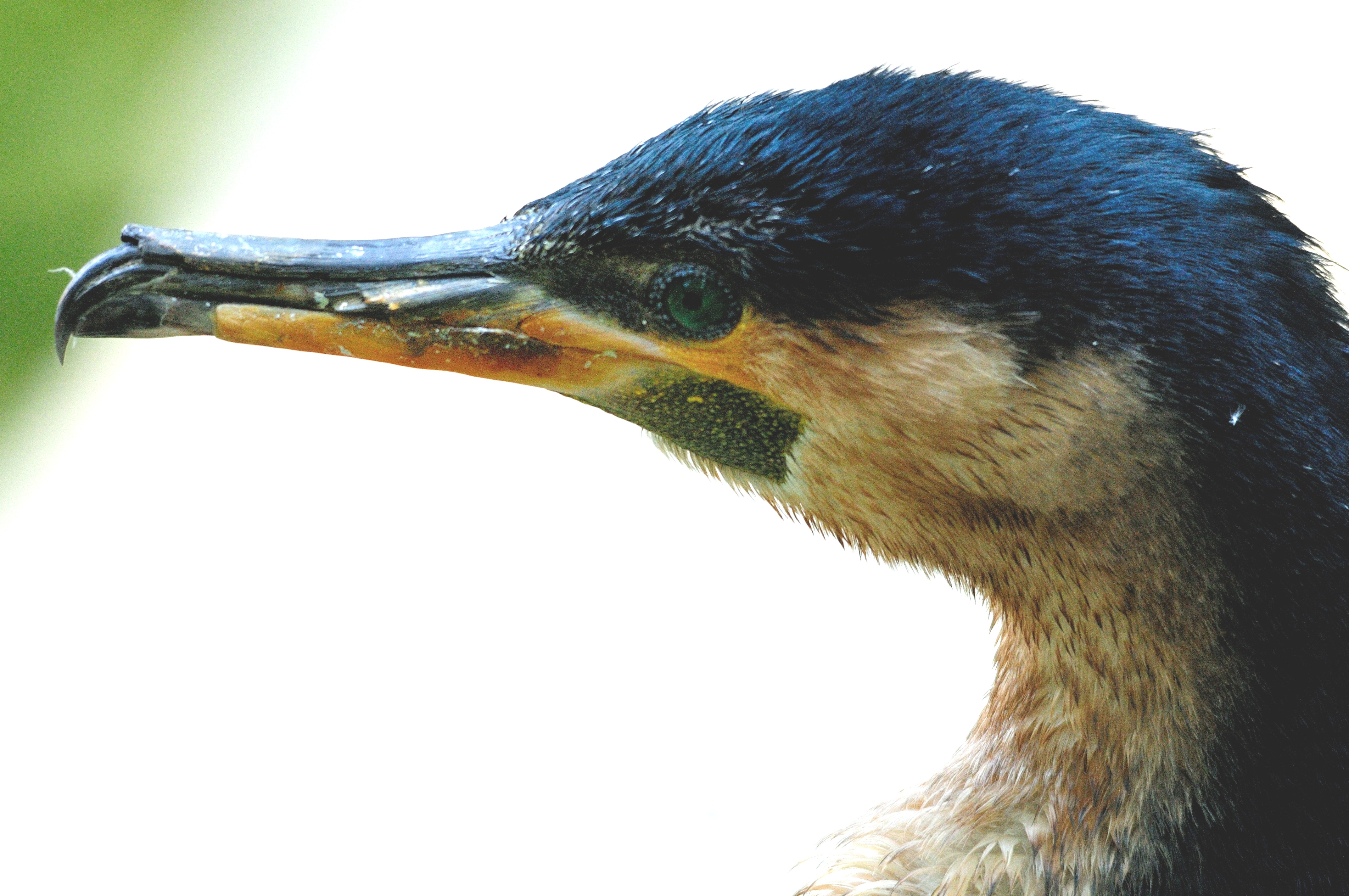 White-breasted Cormorant (Phalacrocorax lucidus) - Diet: fish and crustaceans - Habitat: shallow water, coasts, lakes, rivers and swamps - Range: Southern and central Africa - Fun fact: you may see a cormorant spread its wings and gently wave them in the air. It's more than just a ridiculous dance - it's how they dry off after a swim.